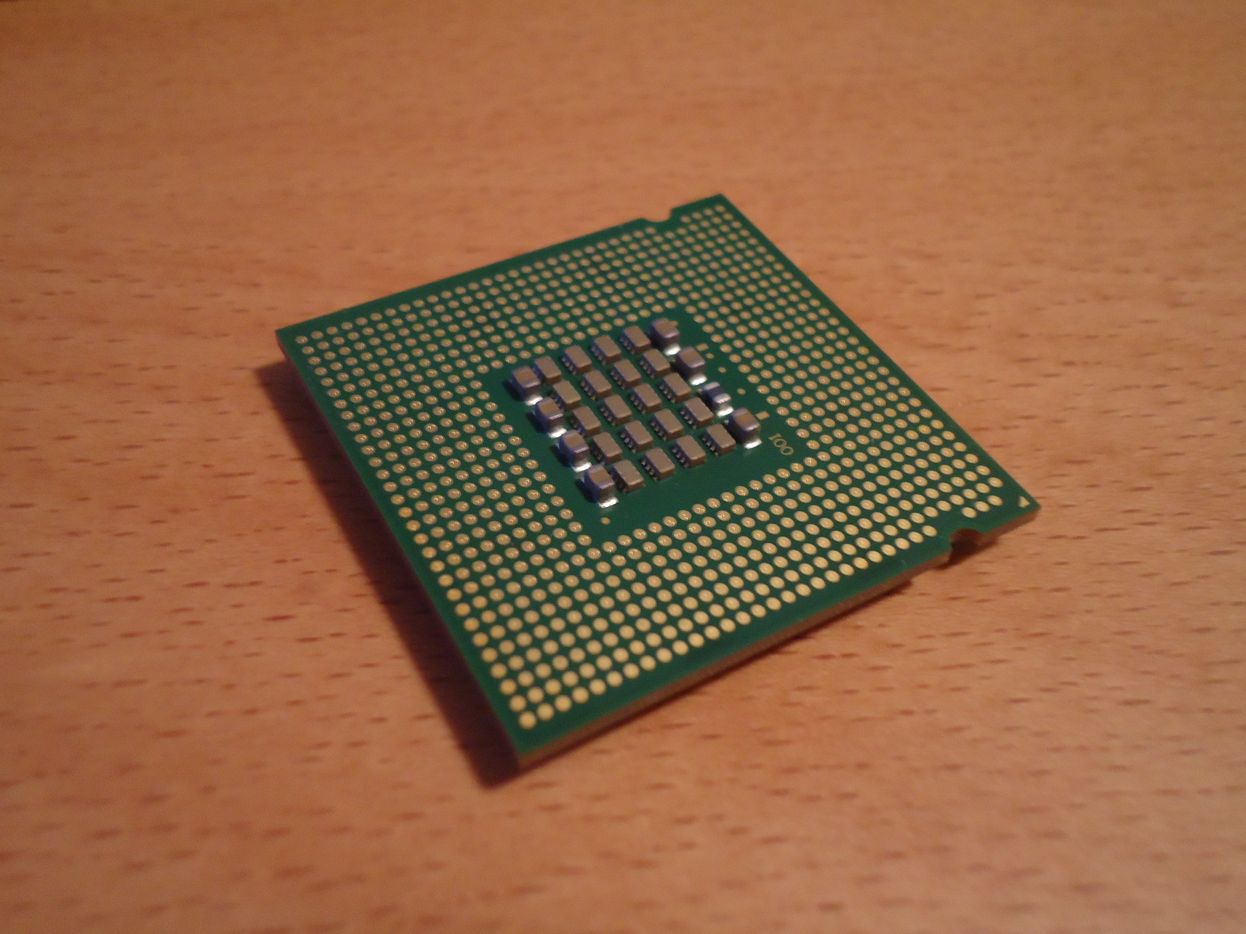 The back of a Pentium D processor